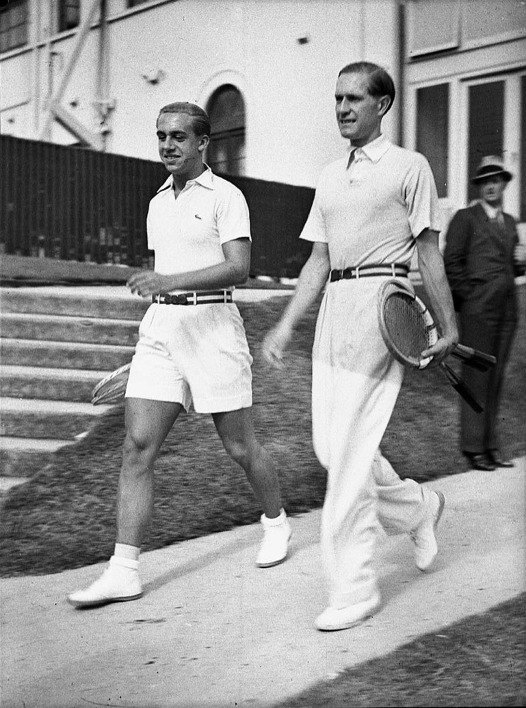 German tennis players Henner Henkel (l) and Gottfried von Cramm (r) at White City, Sydney NSW, Australia.